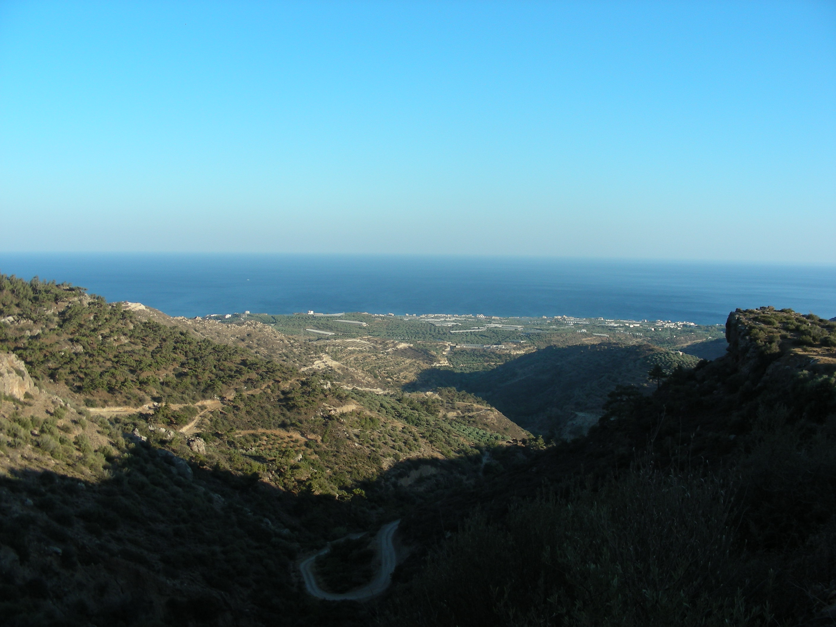 View of Koutsouras, Lasithi District.